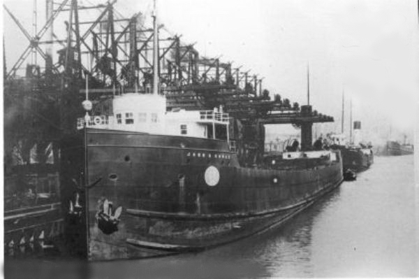 The John B. Cowle at dock.